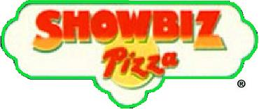 A Later Logo for ShowBiz Pizza Place.